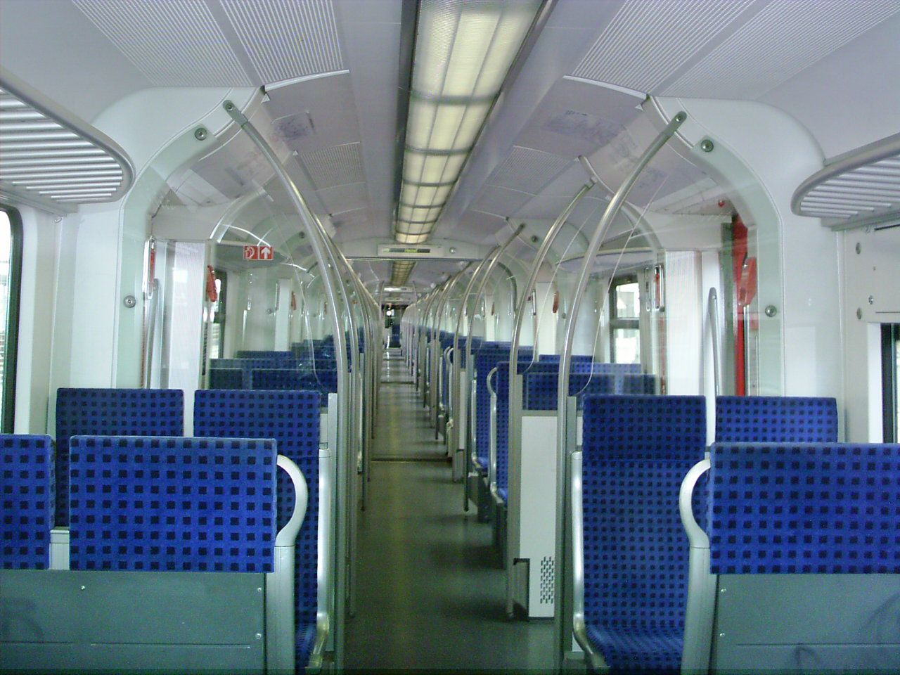 passenger area of class 423 check usage